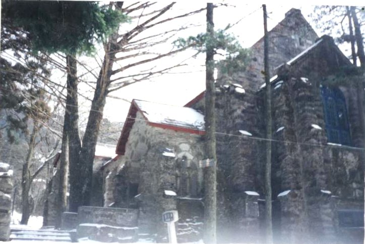 Old chapel at Mount Lu